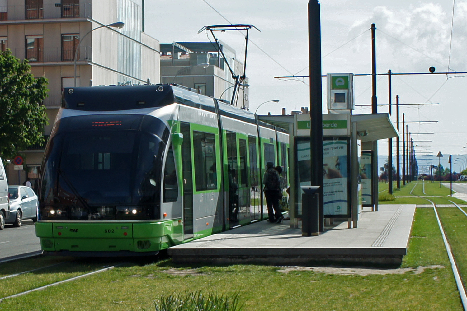 Eusko Tran, Vitoria, Basque Country, Spain